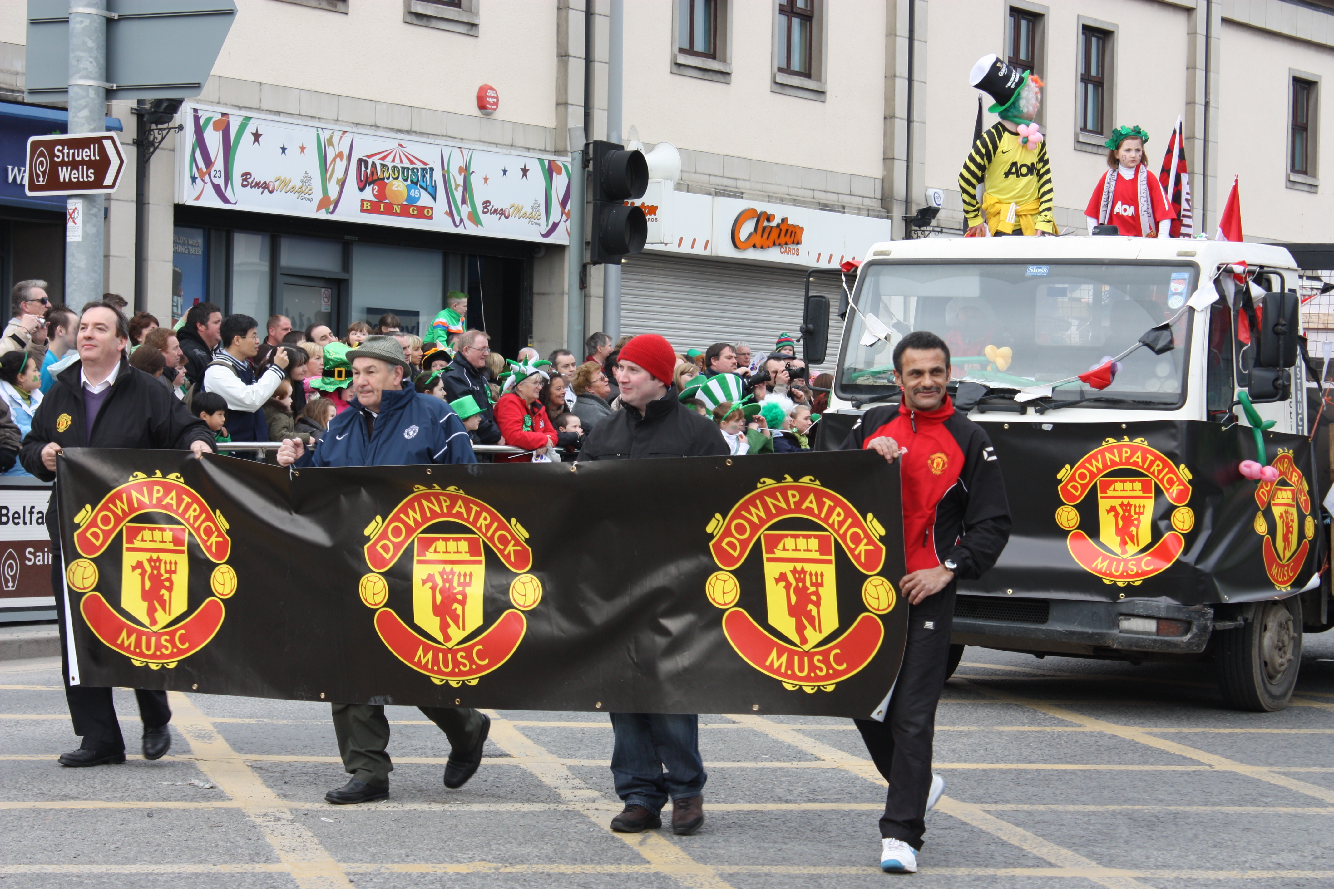 Market Street, Downpatrick, County Down, Northern Ireland, March 2011